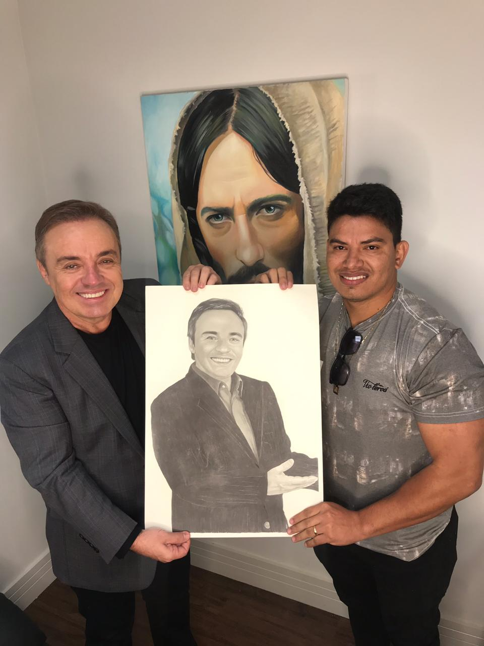 Vagner Santana & GUGU2